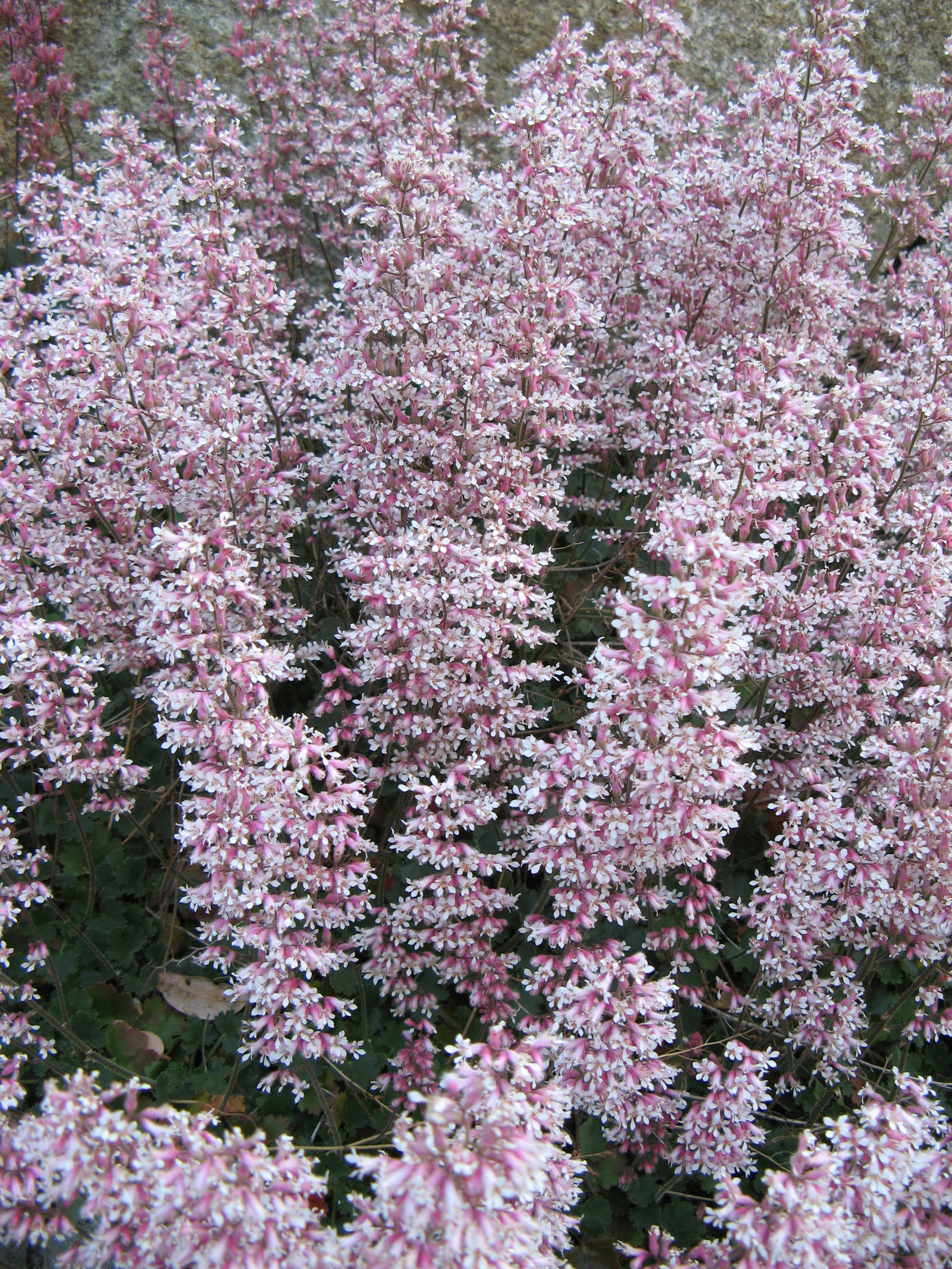 A bunch of urn-flowered alumroots (Heuchera elegans) in Mount Wilson (California).